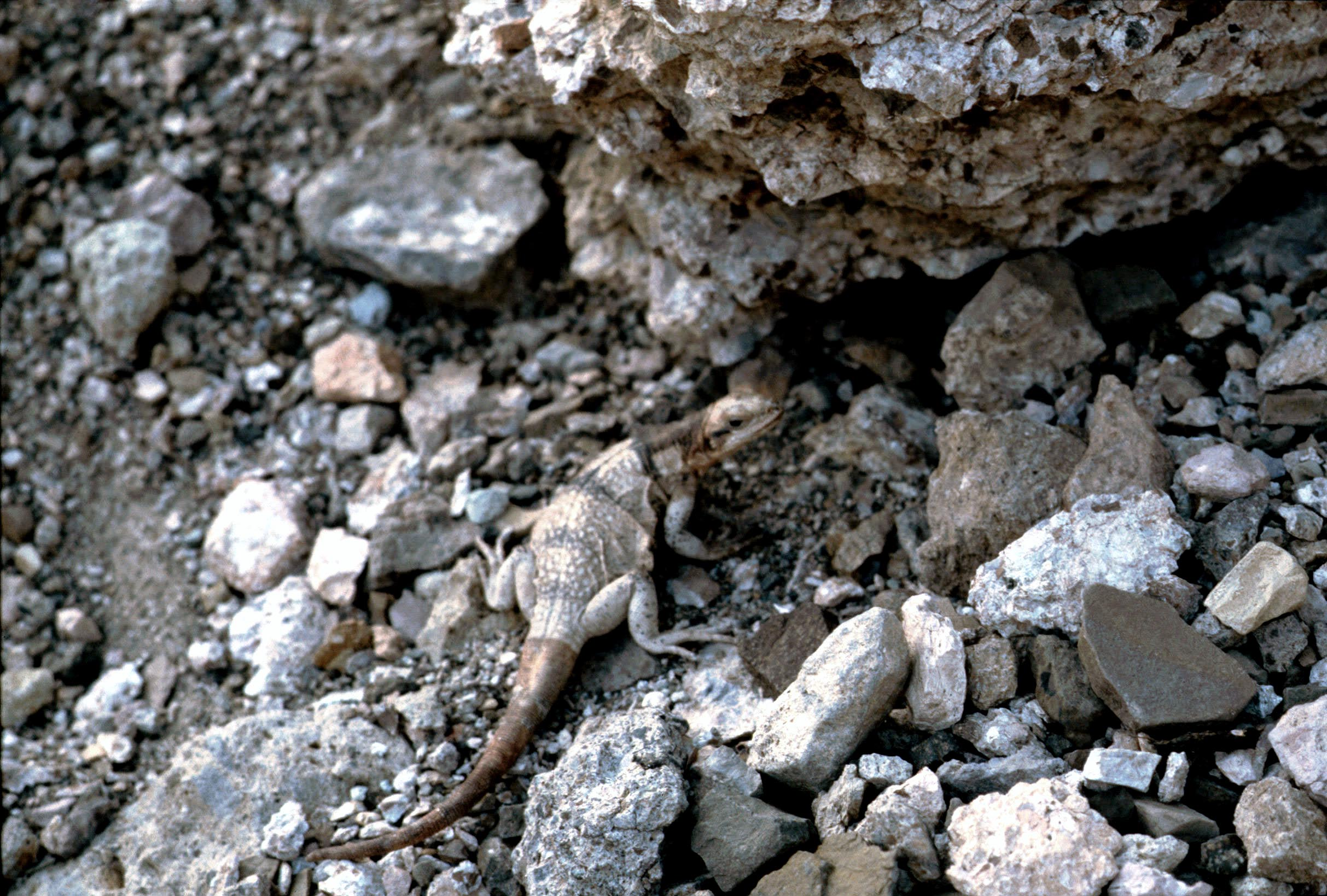 Death Valley,Animals,Chuckawalla